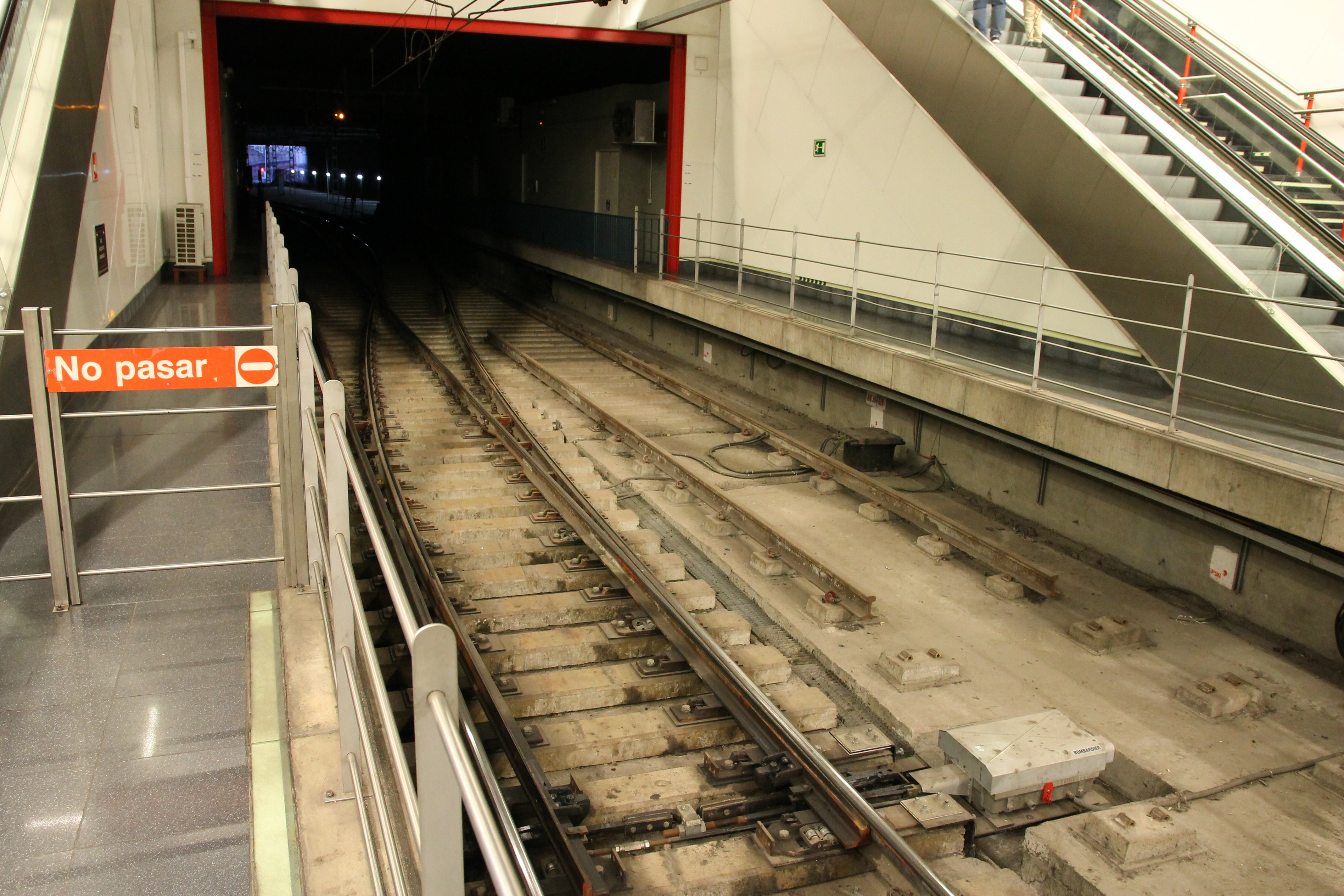 Casa de Campo metro station, Madrid